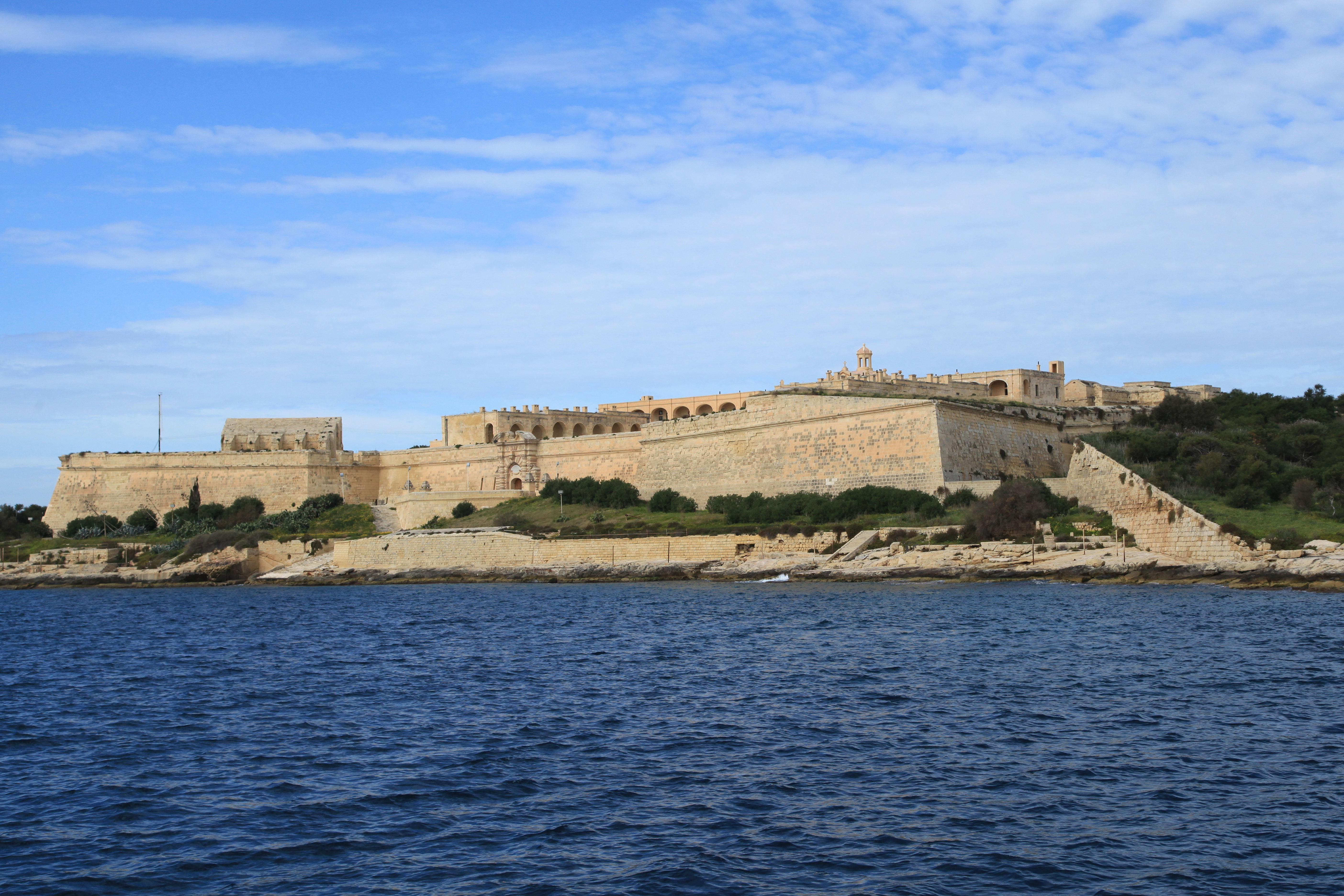 View from the Ferry Sliema - Valletta to Fort Manoel, Manoel Island in Gżira, Malta